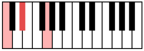 c minor